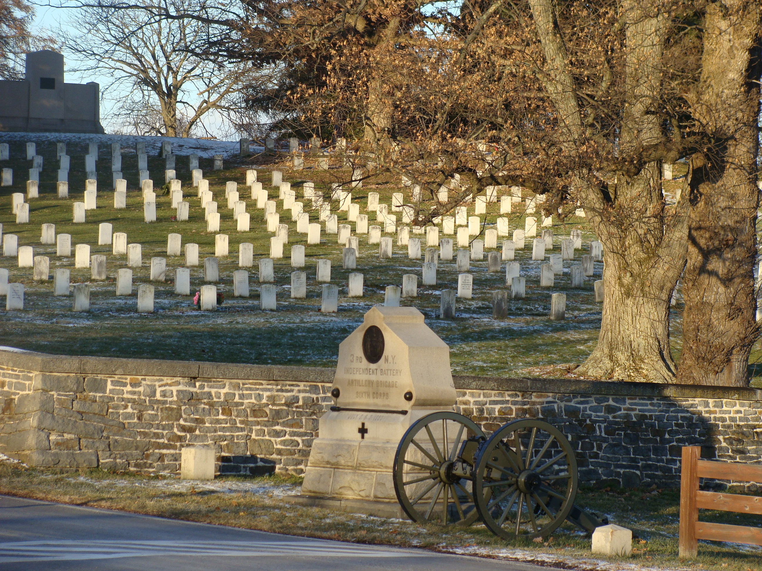 Photograph of a cemetary at the Gettysburg National Military Park in Gettysburg, PA